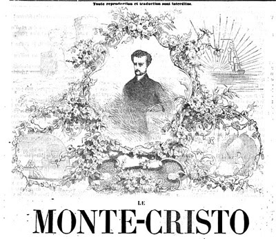 ilustração do Conde de Monte Cristo